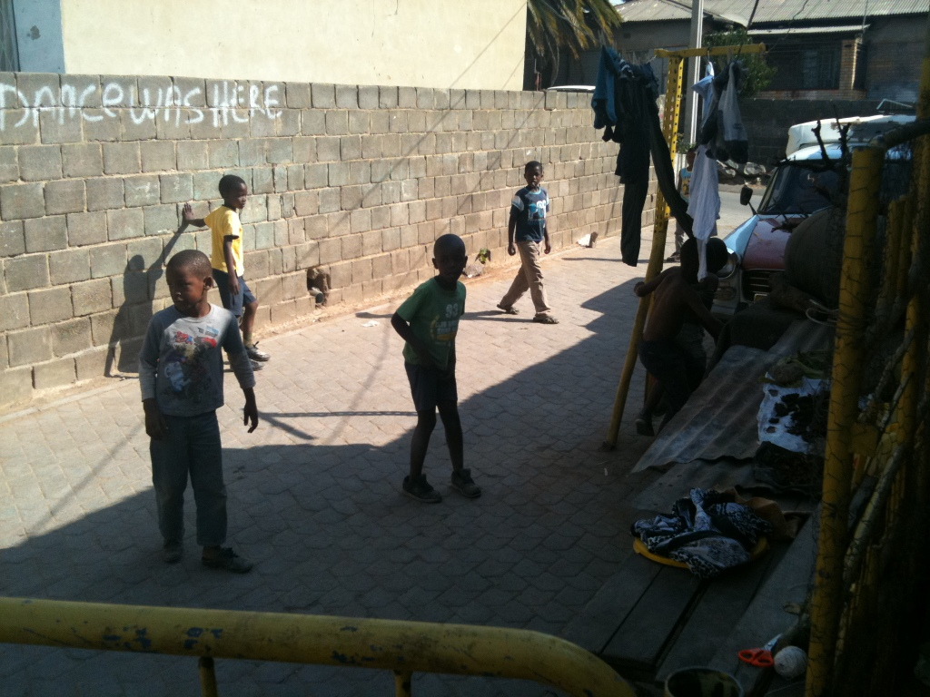 Kids Playing soccer in Alexandra Township